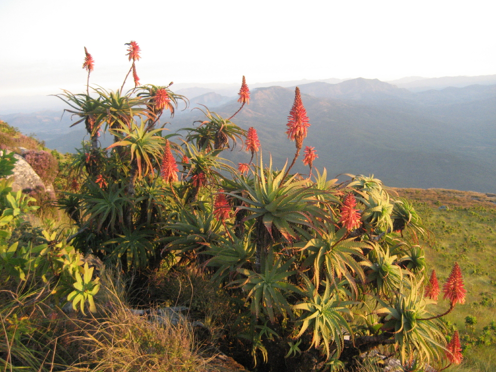 Aloe arborescens on Mount Gurungue (1950 m.a.s.) in Manica district of Mozambique.